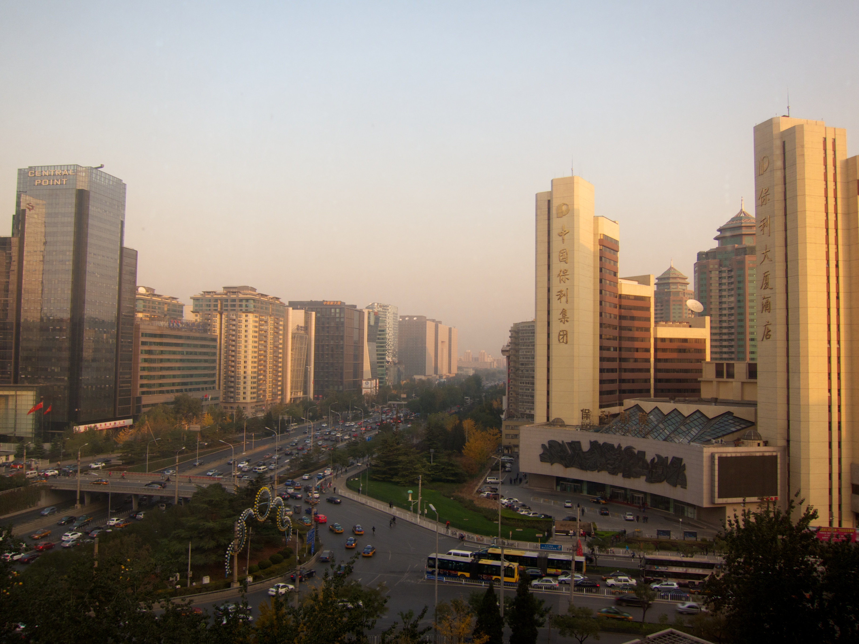 View from my room.